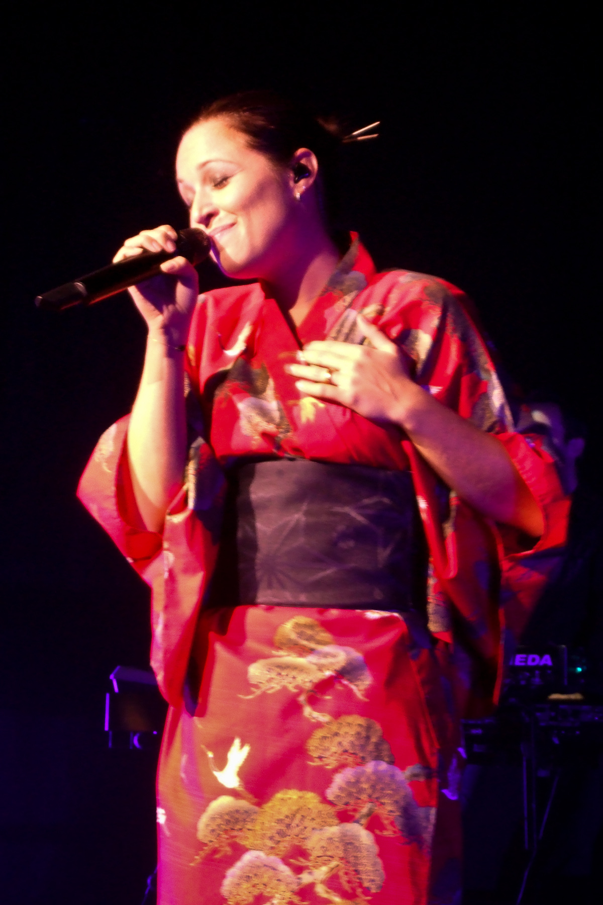 French singer Natasha St-Pier singing at l'Amphitétre, in Lyon, during her 2006 Tour.